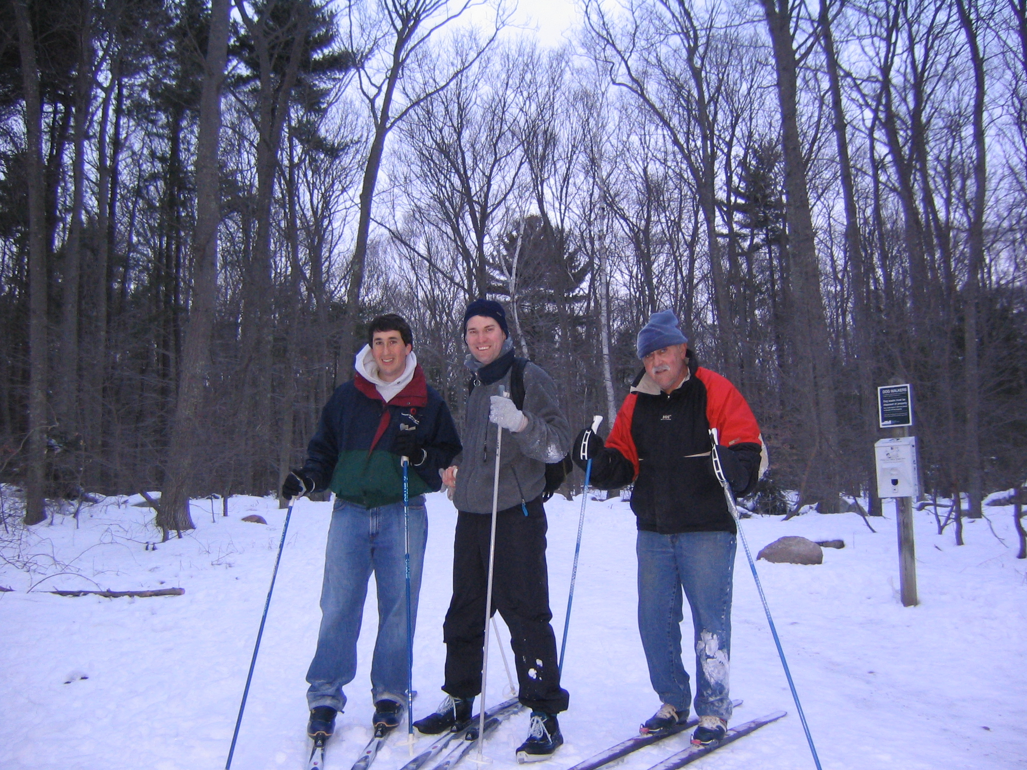 Cross-country skiing is one of the more popular winter activities at Ravenswood Park. Here, three skiers have returned from a day of skiing. [1]